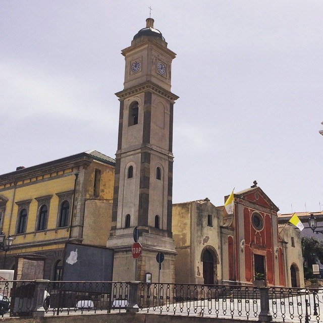 The Sant'Antioco Martire basilica in Sant'Antioco, Sardinia, Italy